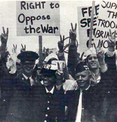 Lieutenant Susan Schnall, Brigadier General Hugh B. Hester and Airman Michael Locks marching in GIs and Veterans for Peach march October 12, 1968